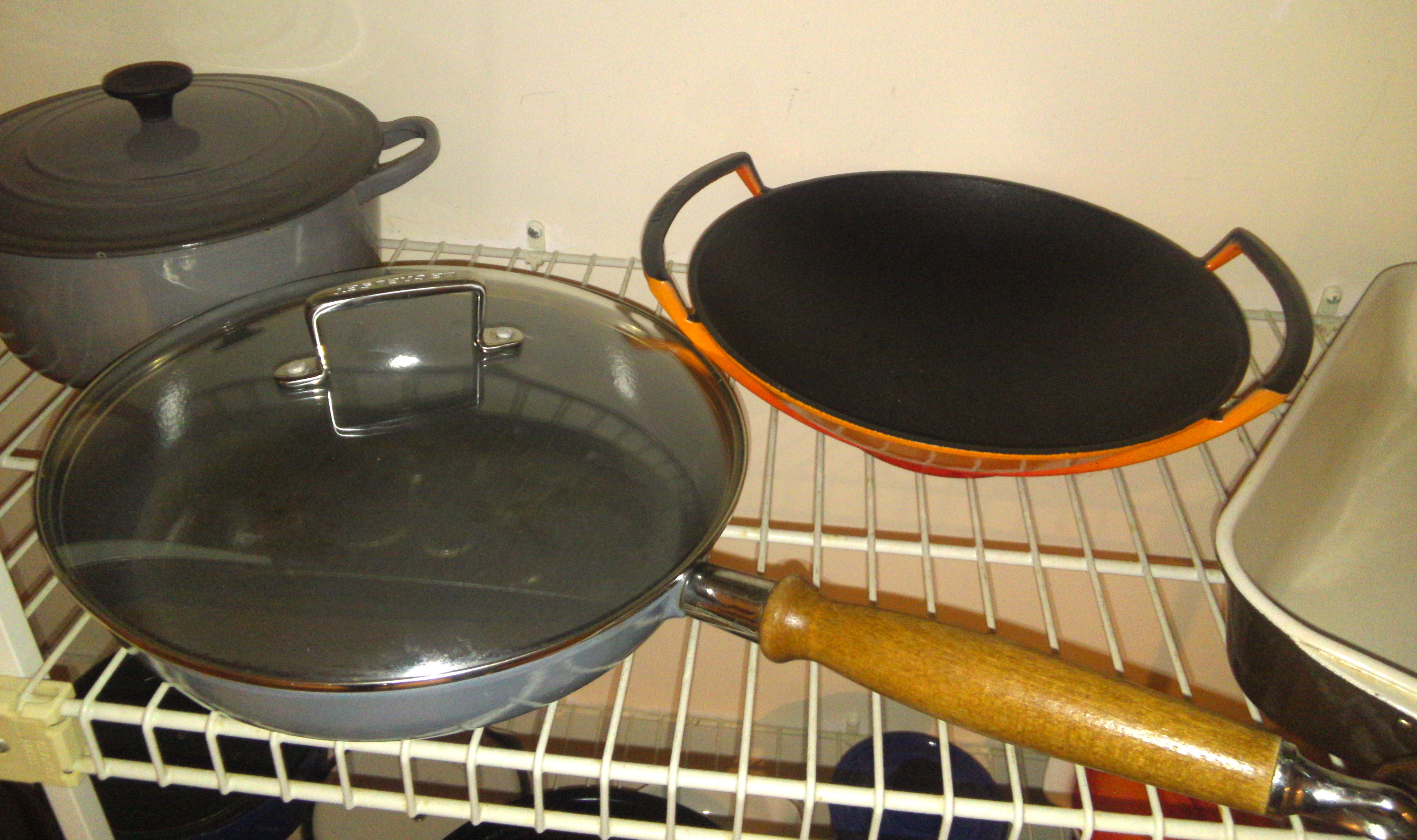 Le Creuset enameled cast iron cookware